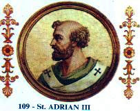 Portrait of Pope Adrian III in the Basilica of Saint Paul outside the Walls, Rome